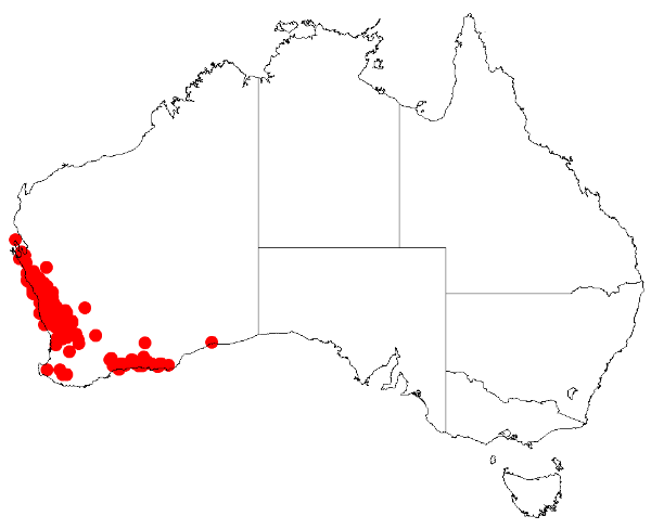 Acacia latipes Occurrence data from Australasia Virtual Herbarium downloaded from on 8 December 2018